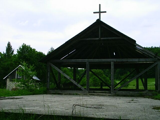 The village of Plitvički Ljeskovac in the Plitvice Region, Croatia